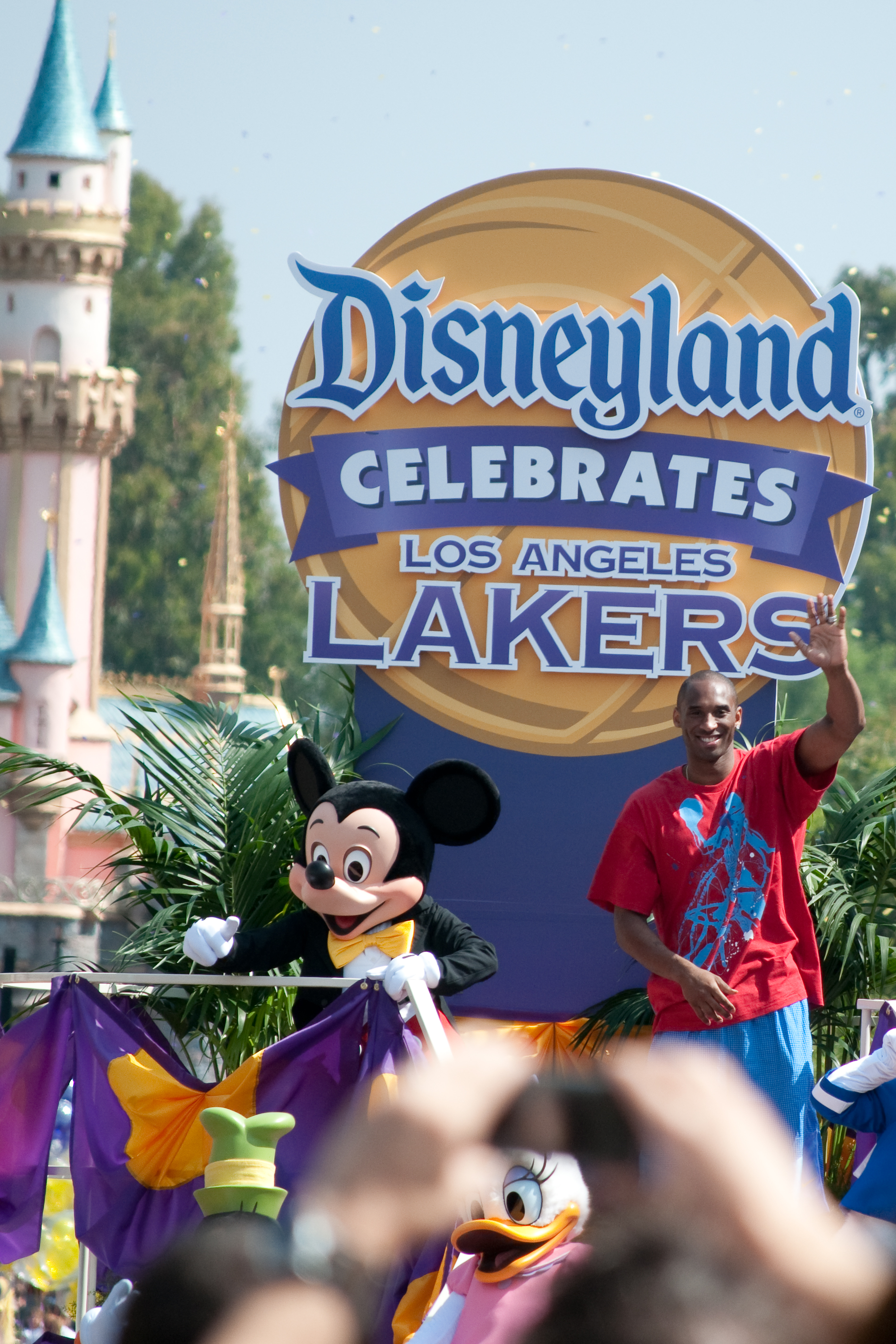 MVP Kobe Bryant represented the Los Angeles Lakers in a Victory Parade down Main Street U.S.A. at the Disneyland Resort in Anaheim, CA. Hundreds of fans came out, some decked out in purple and gold, to celebrate the Lakers' 15th NBA World Championship.